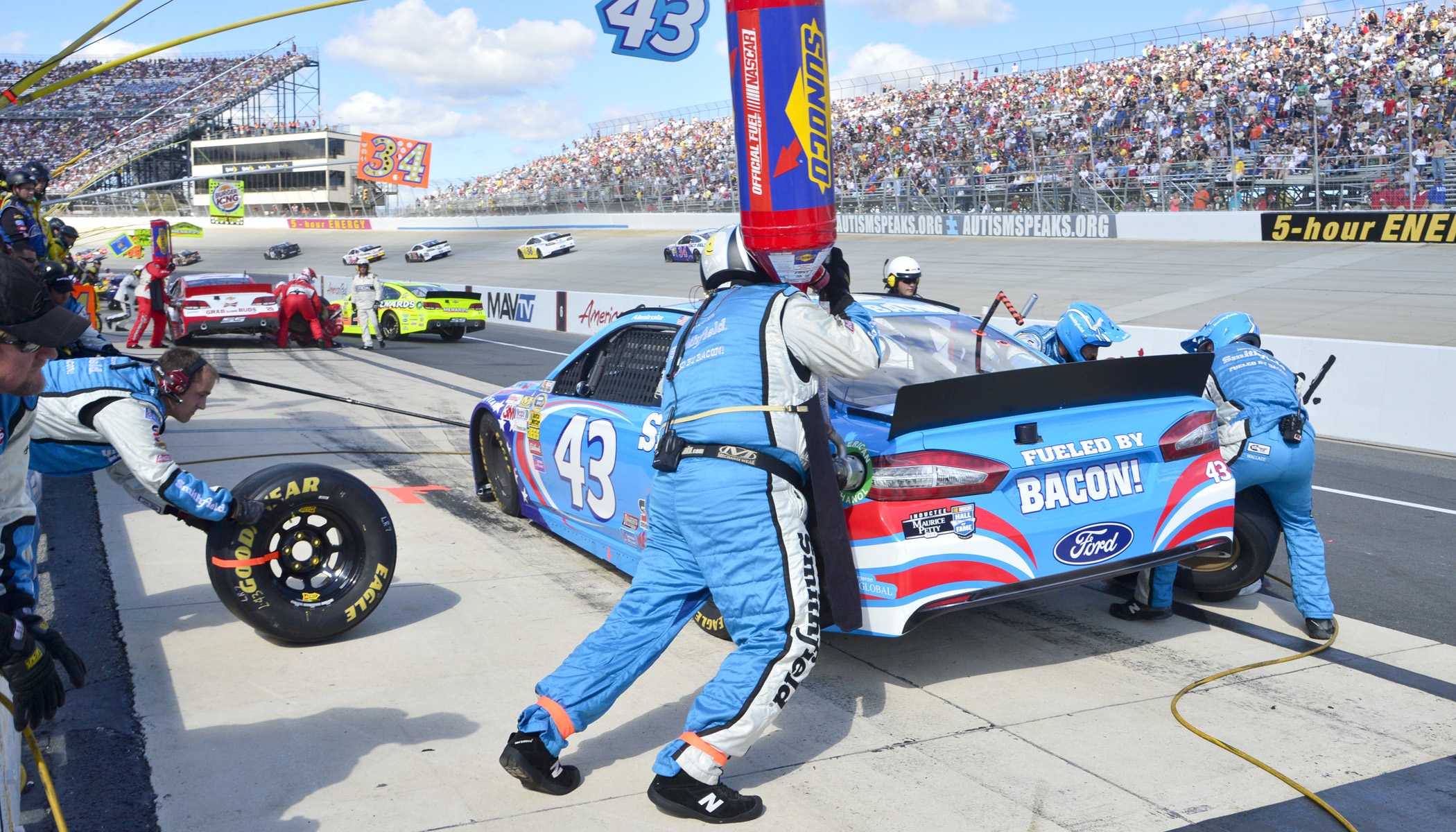 Pit crew members for Aric Almirola, driver of the No. 43 Smithfield/U.S. Air Force Ford, work on his car during the AAA 400 Sept. 29, 2013, at Dover International Speedway in Dover, Del. Almirola was pitting under a caution for debris on the track. (U.S. Air Force photo/David Tucker)